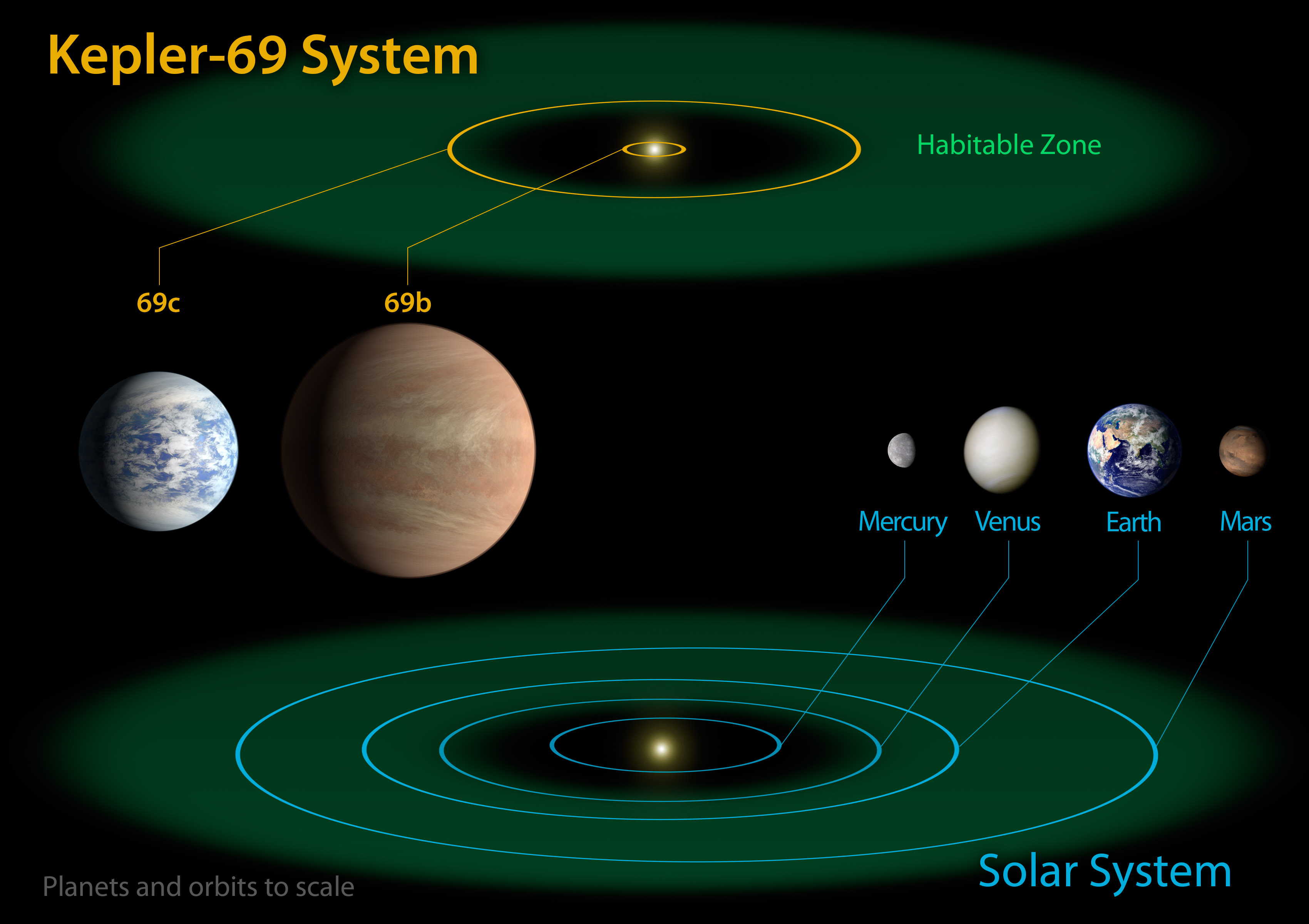 Kepler-69 and the Solar System The diagram compares the planets of the inner solar system to Kepler-69, a two-planet system about 2,700 light-years from Earth in the constellation Cygnus. The two planets of Kepler-69 orbit a star that belongs to the same class as our sun, called G-type. Kepler-69c, is 70 percent larger than the size of Earth, and is the smallest yet found to orbit in the habitable zone of a sun-like star. Astronomers are uncertain about the composition of Kepler-69c, but its orbit of 242 days around a sun-like star resembles that of our neighboring planet Venus. The companion planet, Kepler-69b, is just over twice the size of Earth and whizzes around its star once every 13 days. The artistic concepts of the Kepler-69 planets are the result of scientists and artists collaborating to help imagine the appearance of these distant worlds. The Kepler space telescope, which simultaneously and continuously measures the brightness of more than 150,000 stars, is NASA's first mission capable of detecting Earth-size planets around stars like our sun. Image credit: NASA Ames/JPL-Caltech